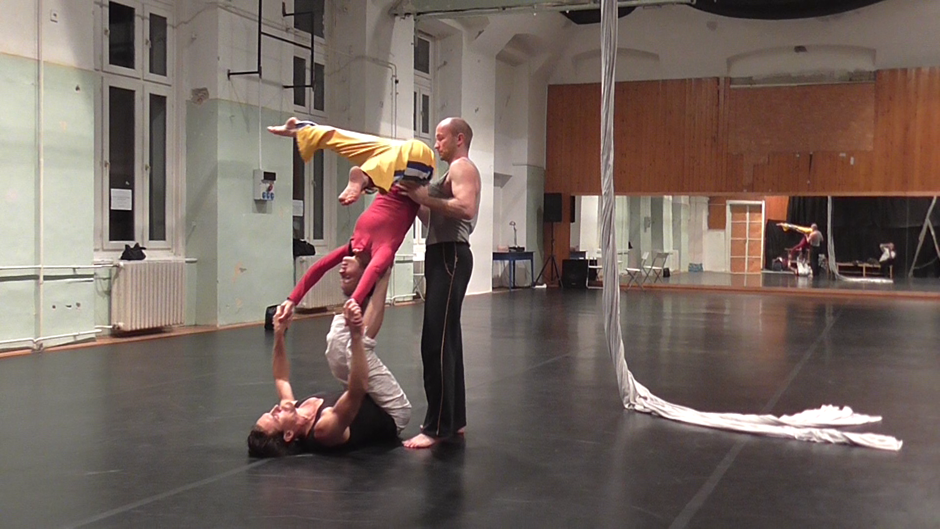 Rehearsal of Medic'all Art Dance Company's MideCirque dance circus play